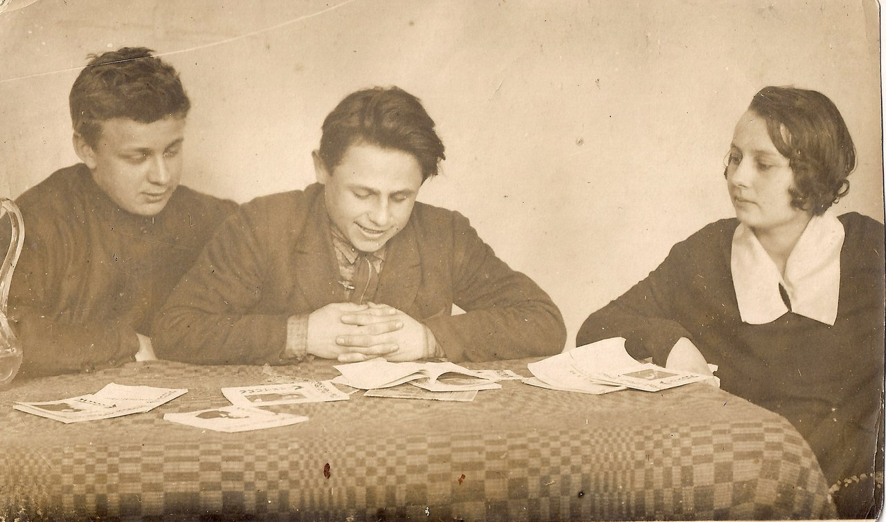 Belarusian poets Valery Marakoŭ, Janka Bobryk and Jaŭhienija Pflaumbaum Беларуская (тарашкевіца): Валеры Маракоў, Янка Бобрык і Яўгенія Пфляўмбаўм гартаюць кнігі зь бібліятэчкі "Маладняка". Менск, 1925 г.